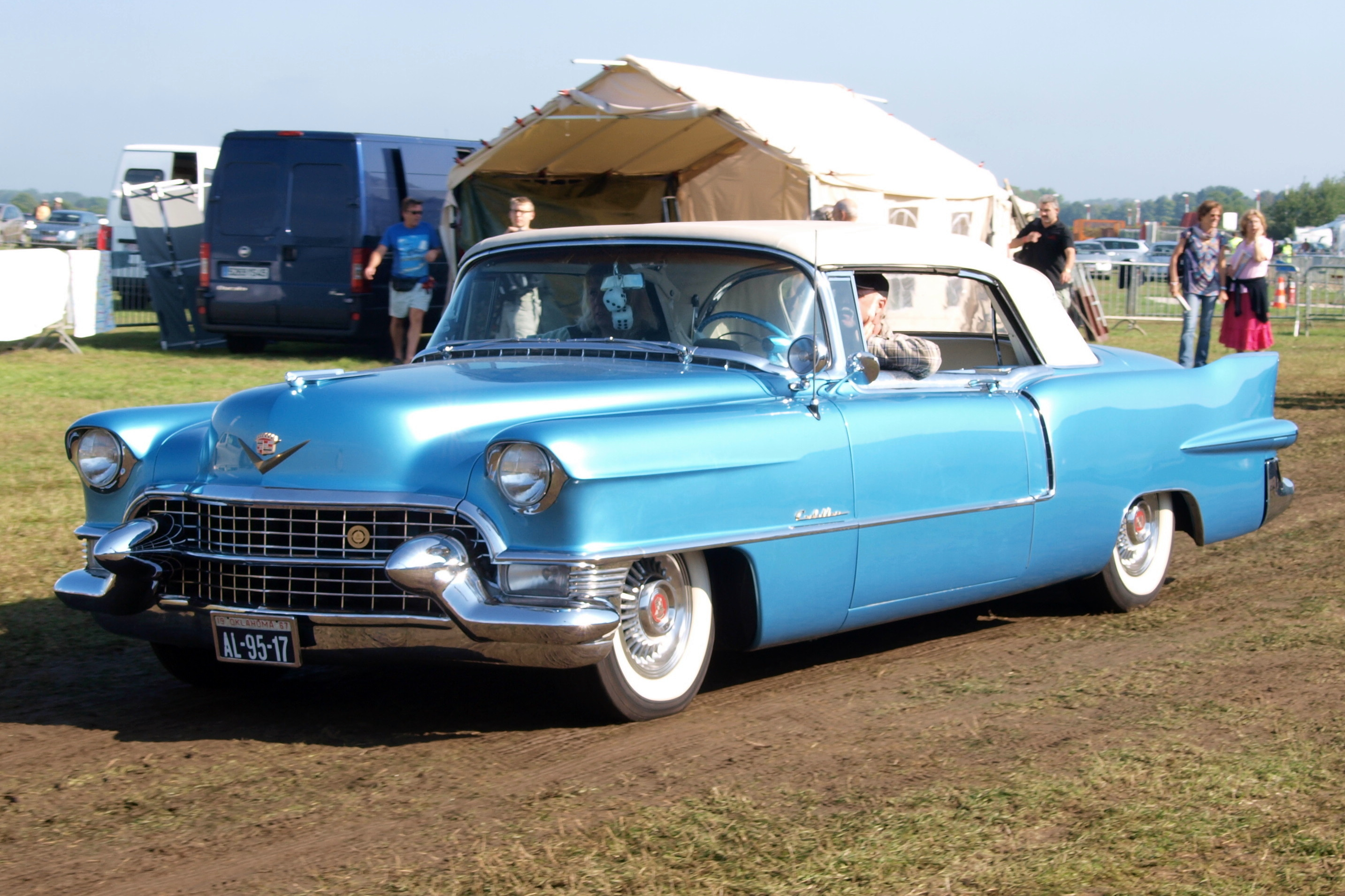 Photographed at The International Oldtimer Fly and Drive In 2010, Schaffen-Diest, Belgium.